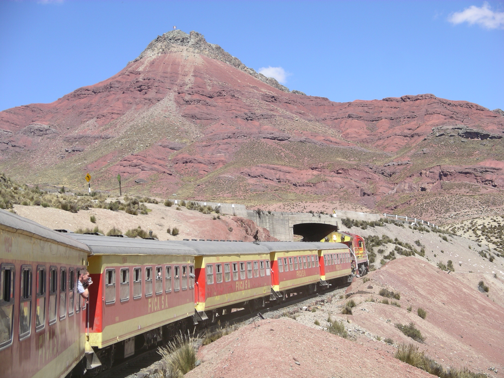 Train Track of the line "Lima - Morococha - Abra Anticona (Ticlio) - La Oroya - Huancayo" in Peru. This picture it taken about at 4836m above sea level going up from Lima, just before entering the tunnel at the highest point of the track at Abra Anticona (Ticlio).